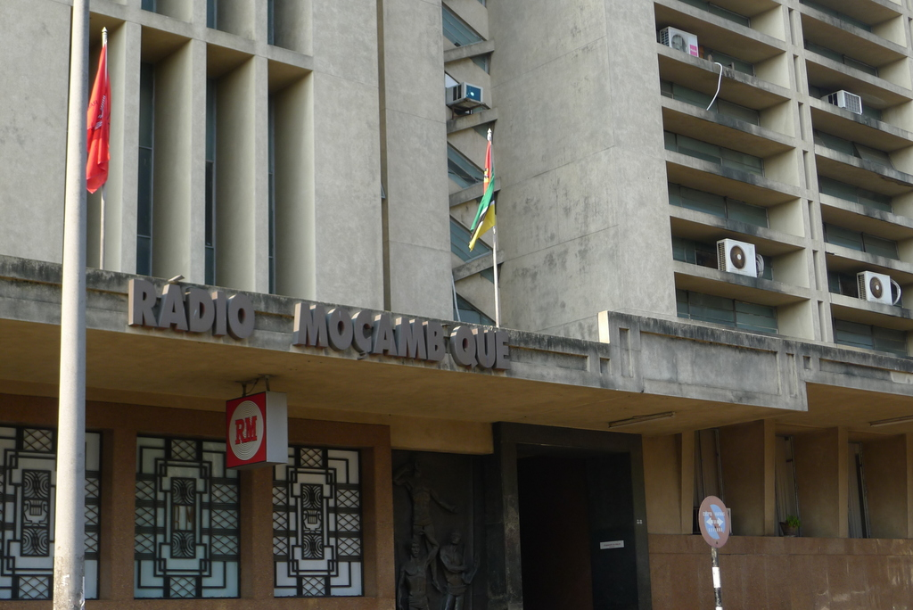 Rádio Moçambique building in Maputo, Mozambique